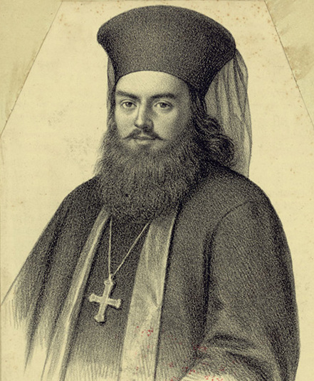 Portrait of Leone Giraldoni, baritone (1826-1897).